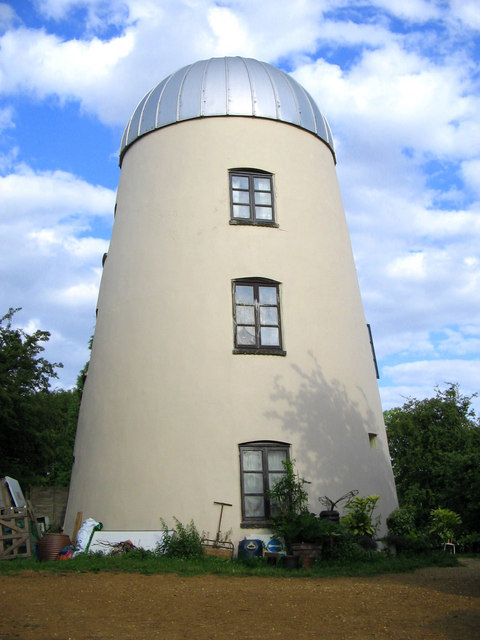 Former Windmill, Hellidon, Northamptonshire; now part of the Windmill Vineyard. It houses the shop and tasting room, and is usually open for visitors from Easter and throughout the summer.